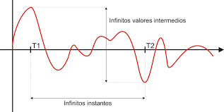 Analog signal's representation in temporal diagram.